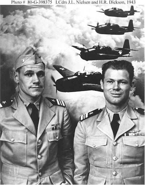 Lieutenant Commanders John L. Nielsen and Harlan R. Dickson at the Department of the Navy in Washington, D.C.